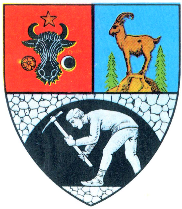 Interwar coat of arms of Maramureș County, Kingdom of Romania.